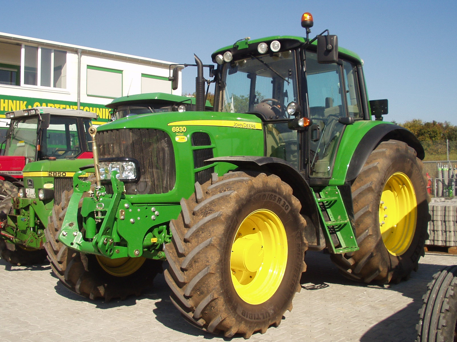 A John Deere 6930 Premium tractor in Germany